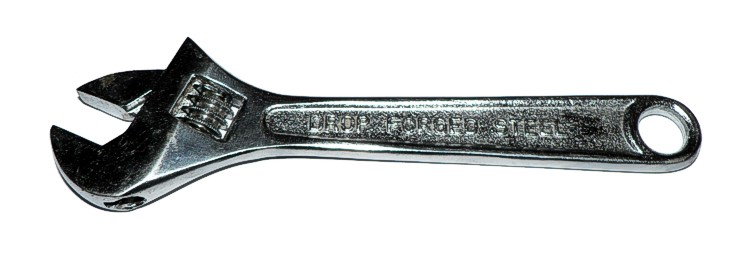 wrench